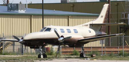 Swearingen SA226-T Merlin III C-FAMF Perimeter Aviation, Winnipeg c. 2007